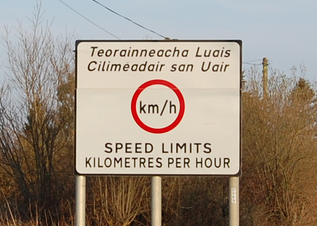 Warning sign about the metric system used in Republic of Ireland (border between county Louth and Northern Ireland, where the imperial system still used.